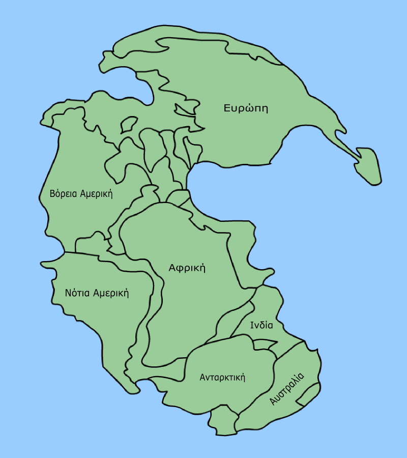 PNG image of Pangaea in Greek, made by geraki based in el::en:Image:Pangaea continents.png